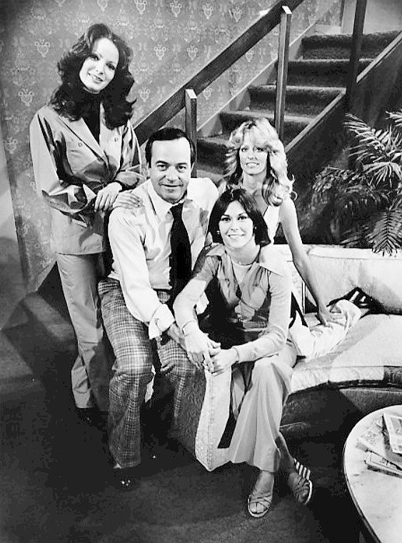 Photo of the cast for Charlie's Angels in 1977. Pictured are Jacklyn Smith, David Doyle (Bosley), Kate Jackson and Farrah Fawcett.